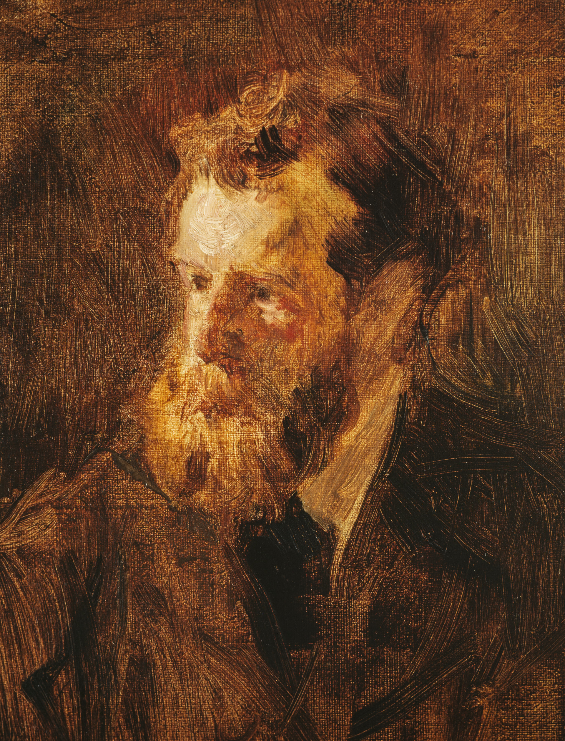 Painting of John Hutchison (1833-1910), Scottish sculptor